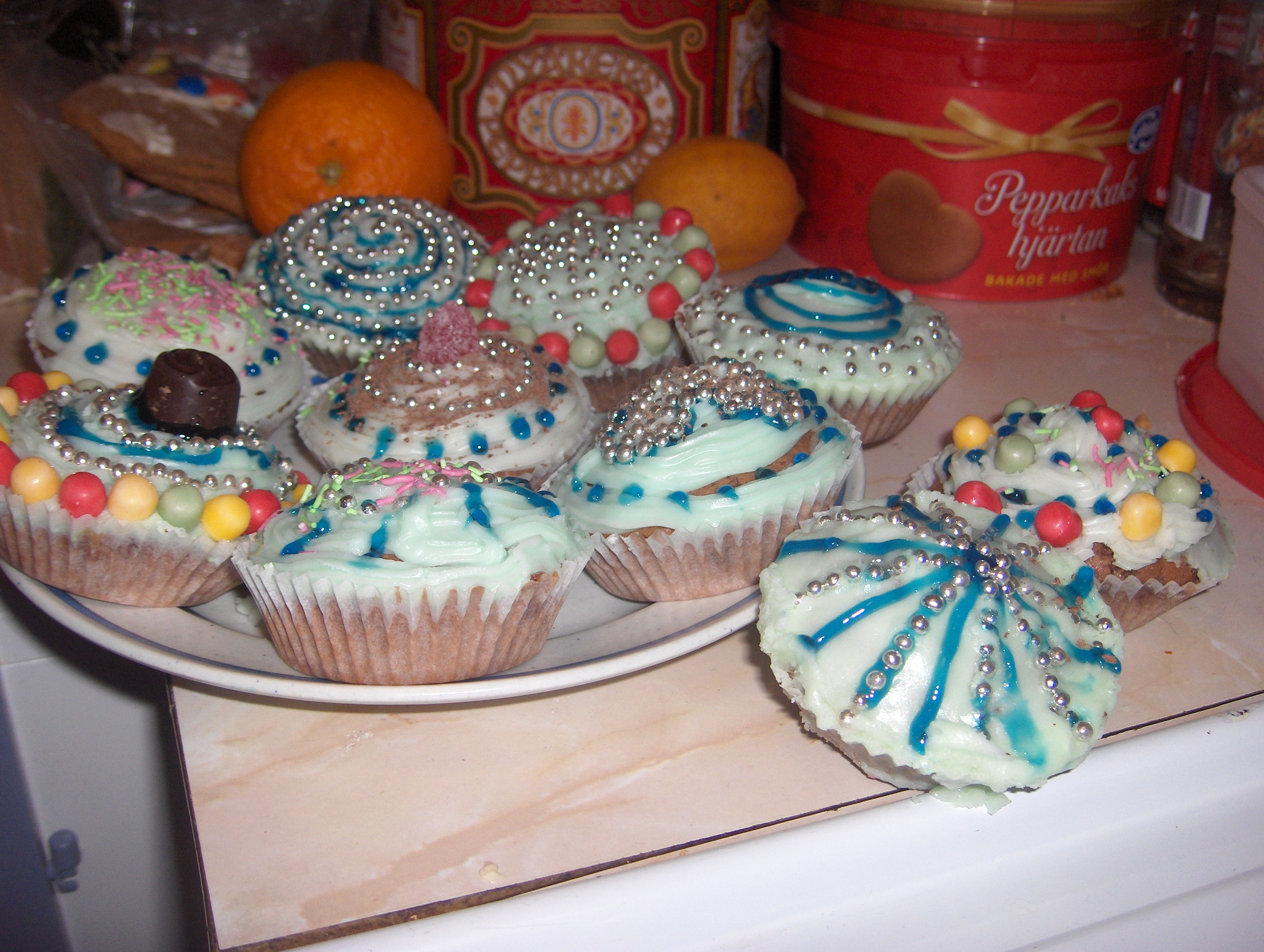 Cupcakes my sister baked. I photographed.